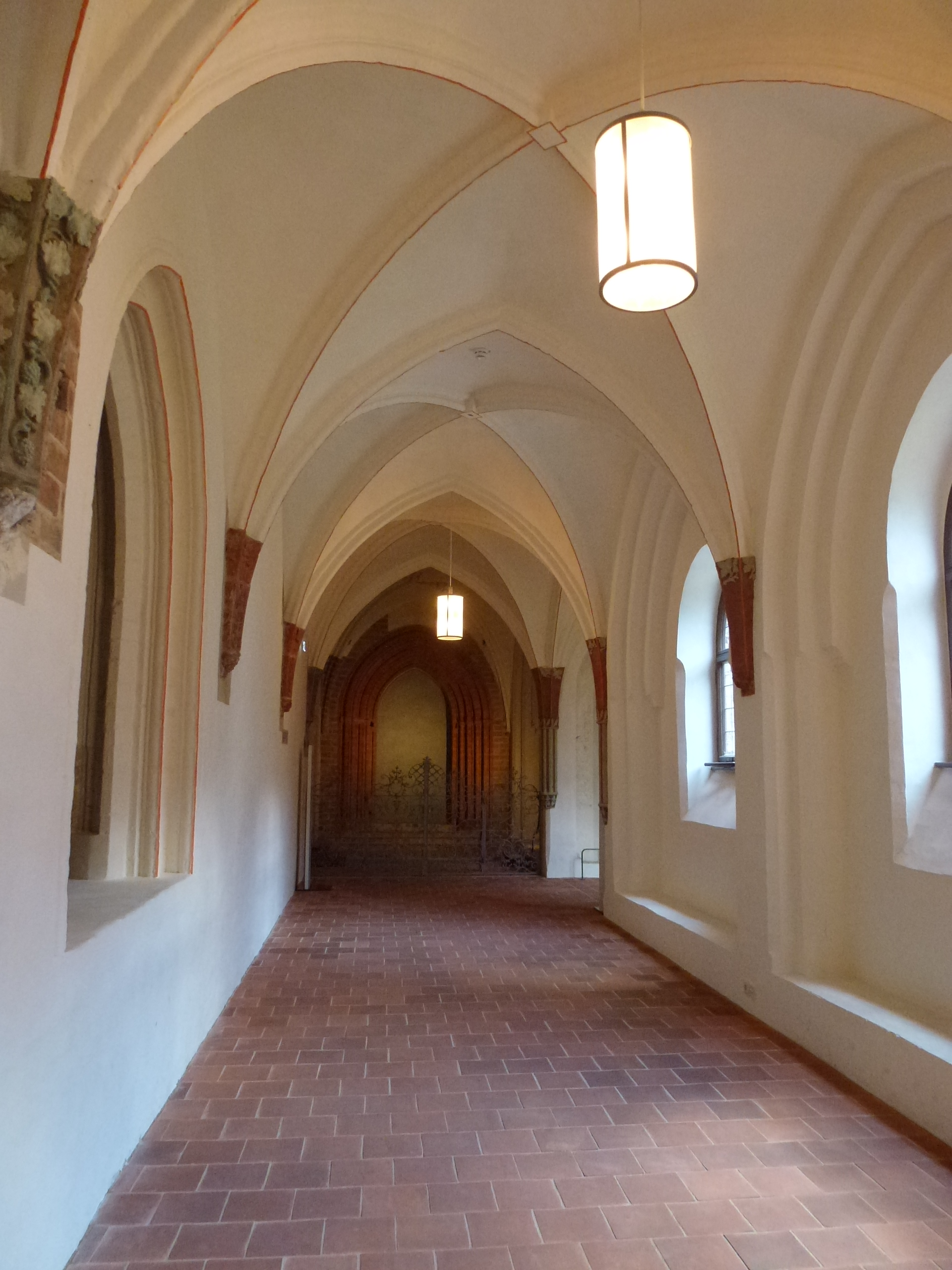 Kloster Neuzelle Kreuzgang